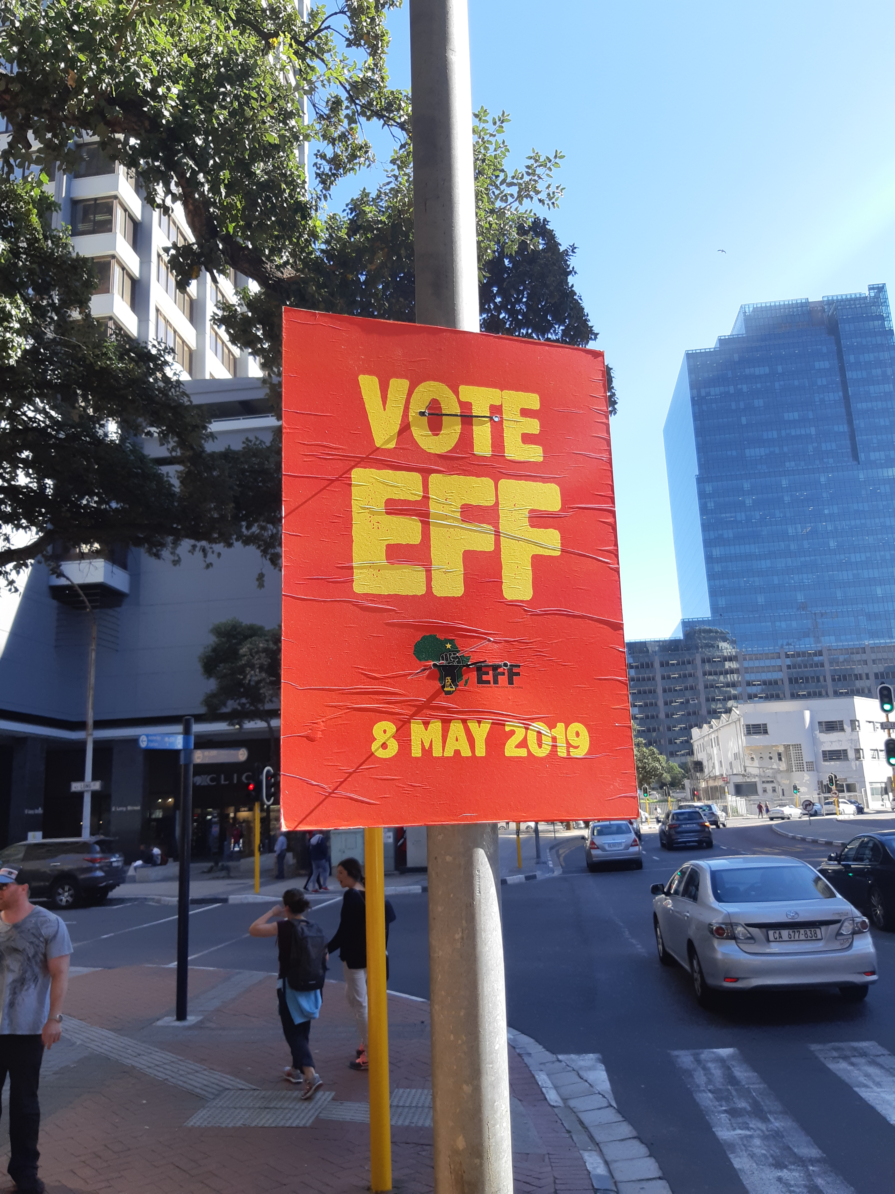 An EFF election poster in Cape Town during the 2019 South African elections.